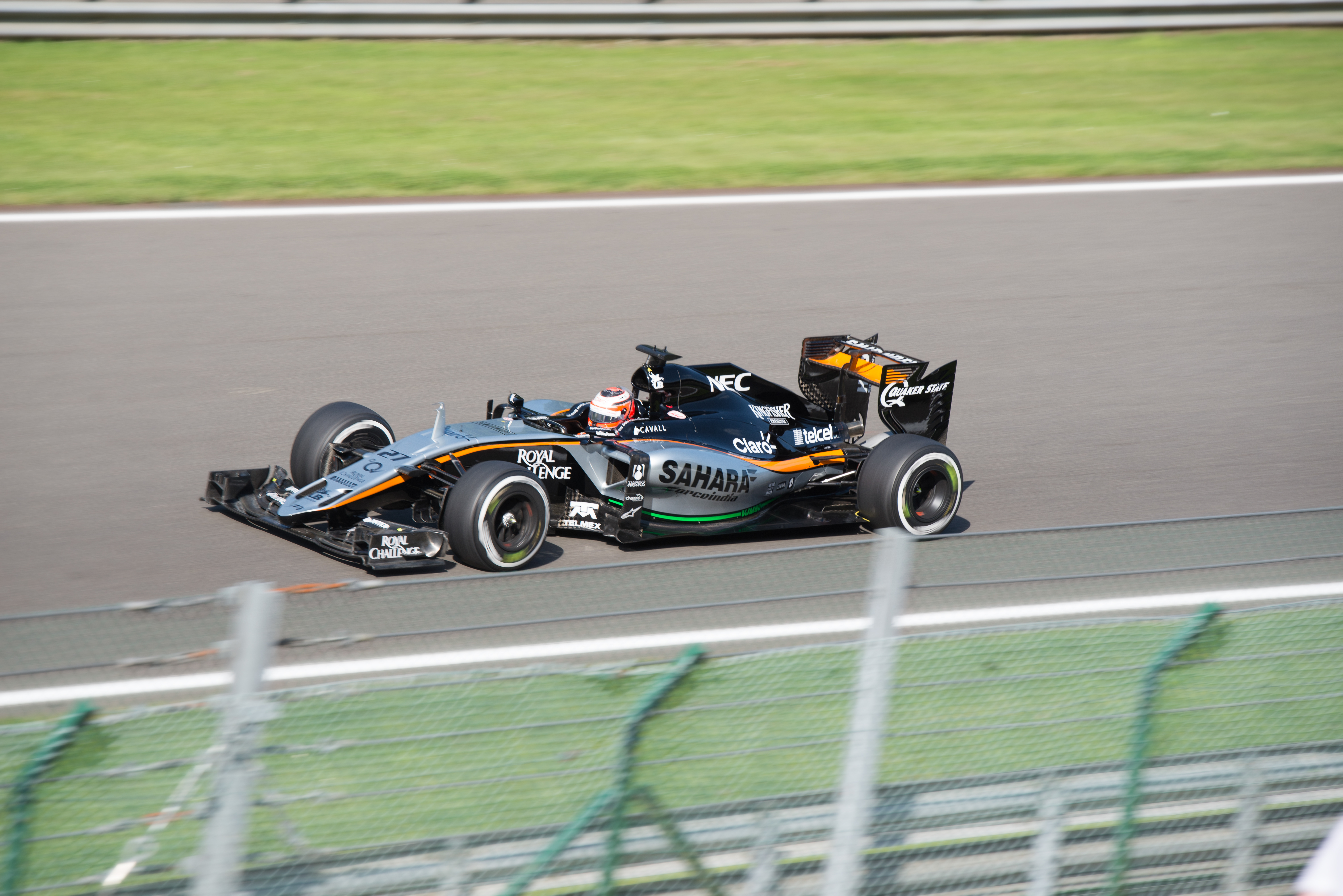 Formula 1 - 2015 Belgian Grand Prix, Spa Francorchamps #27 Nico Hulkenberg